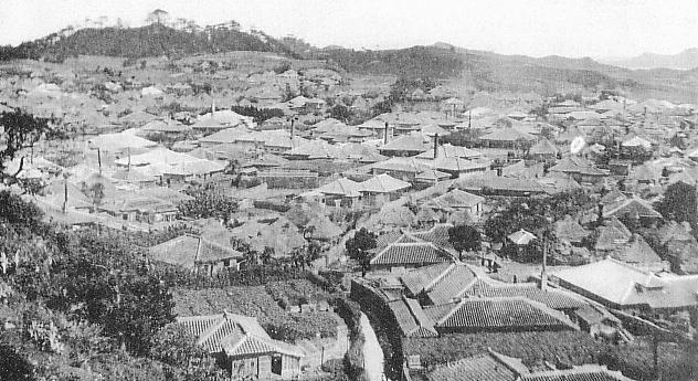 Shuri-Sanka in Taisho era